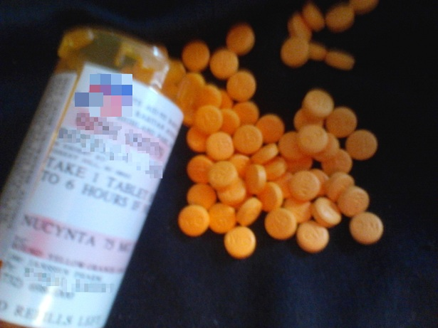 Brand name 75 mg Nucynta (tapentadol) tablets from Janssen Pharmaceuticals.